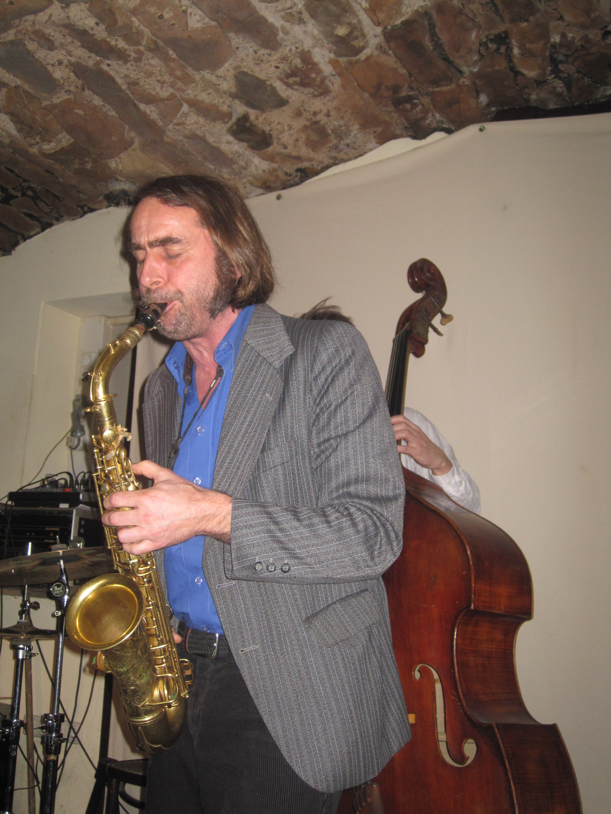 Henrik Walsdorff, Jazz saxophonist from Berlin; Picture taken in Jazz Club Cavete, Marburg /Hesse